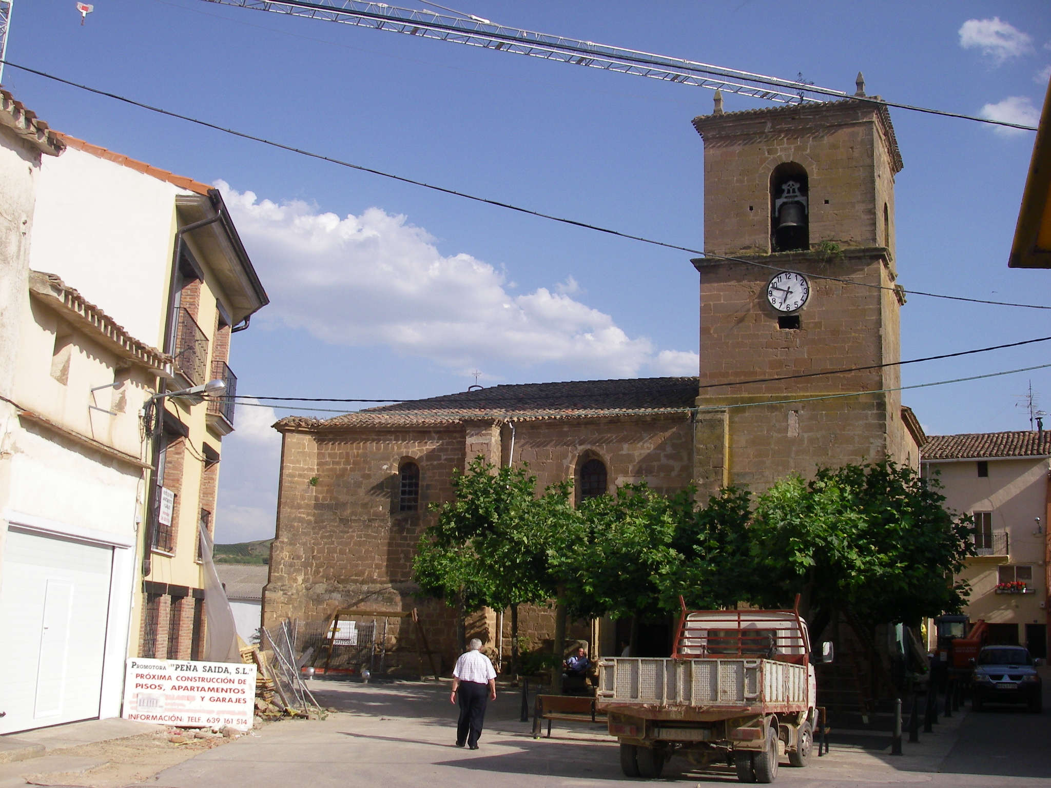 Nativity's church in Medrano (La Rioja, Spain)